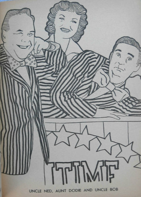 WGN-TV "Good Habits" Coloring Book-Lunchtime Little Theater page. The book was done for WGN-TV's schedule of children's television shows in 1959. The shows pictured on the cover (Garfield Goose and Friends, Lunchtime Little Theater, Bugs Bunny and Friends) each had a page in the book. A copyright search on the following turned up no renewals related to this material: Television Coloring Books WGN-TV There is no evidence any copyrights on this material were renewed, thus there was no attempt to maintain this protection for this item.